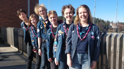 1-6 1=right 6=left 1, Agnes Manninen 2, Karin Johansson 3, Måns Lundén 4, Arvid Längsjö Olovsson 5, Cecilia Ståhl 6, Ruben Lasson